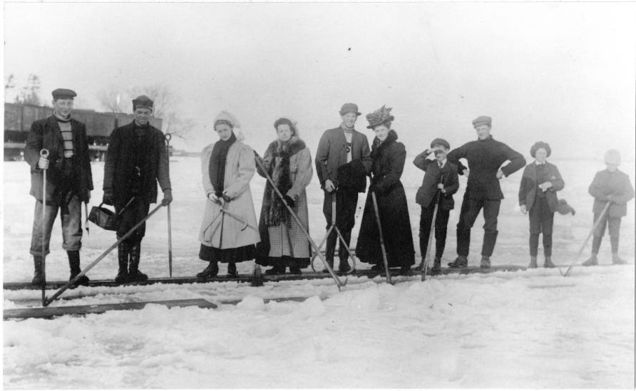 Workers, their wives and children pose at ice cutting operations on Lake Simcoe near Jackson's Point, Ontario in 1895. A Grand Trunk Railway train waits in the background.